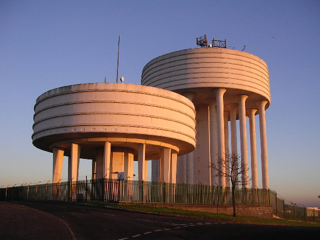 Craigend and Garthamlock Water Towers. Prominent water towers visible from the M8, here caught in late afternoon sunshine